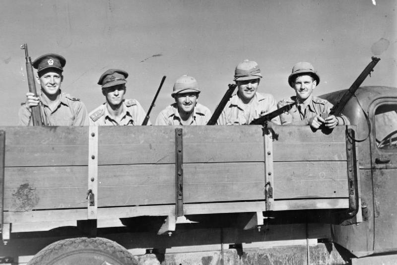 Royal Air Force- East Africa Command, 1940-1945. Leading pilots of No. 1 Squadron SAAF pose for a group photograph in the back of a lorry, during a hunting expedition at Agordat, Eritrea. Left to right: Captain Andrew Duncan, Captain Ken W Driver, Lieutenant Robin Pare, Major Laurie A Wilmot (Commanding Officer) and Captain Brian J L "Piggy" Boyle. Duncan achieved four victories during the East African campaign, Driver became the most successful Commonwealth fighter pilot in East Africa with ten victories, Pare and Boyle scored five victories each and Wilmot scored one victory and one shared victory before he was shot down over Makale on 23 February 1941 and imprisoned.